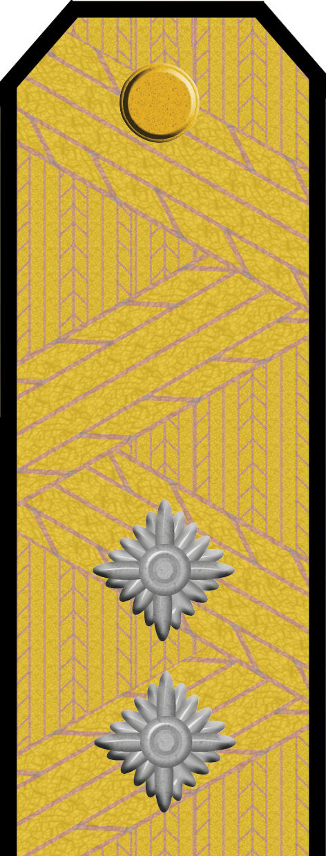 Bulgarian army Major General rank insignia